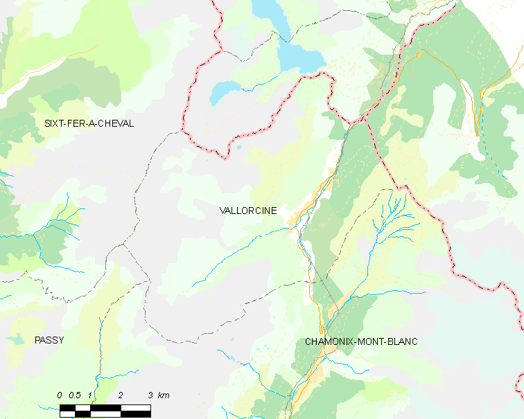 Map of French municipality Vallorcine